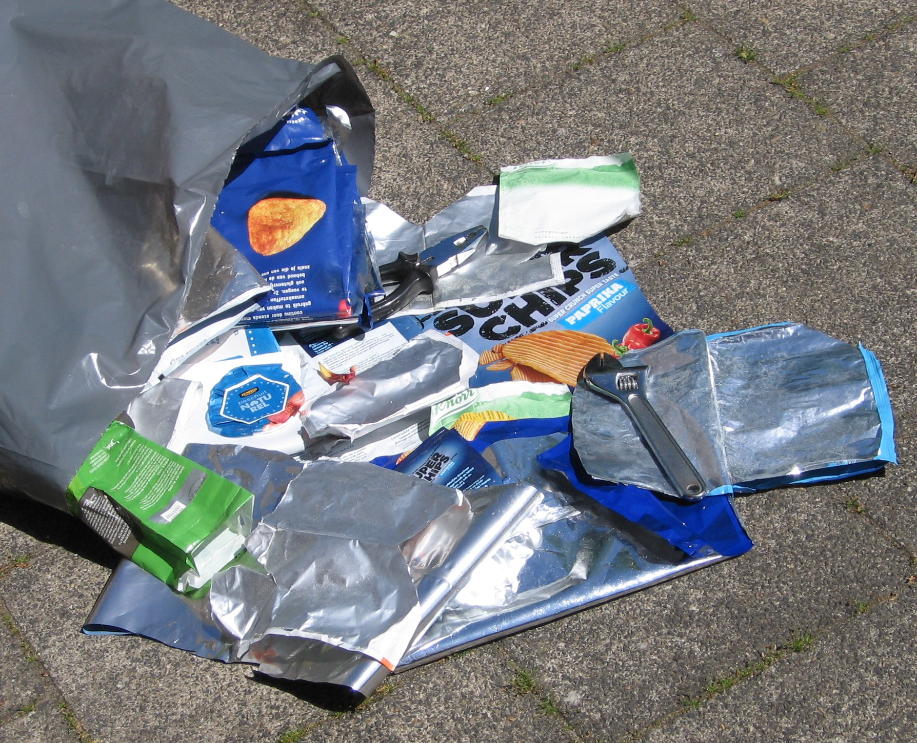 Aluminium and plastic foil food packaging, The Netherlands, May 2020